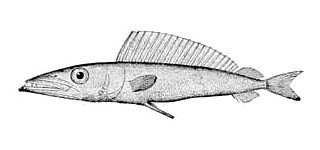 Promethichthys prometheus (=Dicrotus parvipinnis). The type specimen collected by the steamer “Albatross” at station 2601, off Cape Hatteras, in 37° 39′ 15″ N 75° 33′ 30″ W, at depth of 107 fathoms (ca. 196 m).